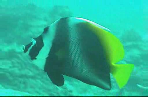 Singular Bannerfish / Heniochus singularius / シマハタタテダイ. Phuket, Thailand.